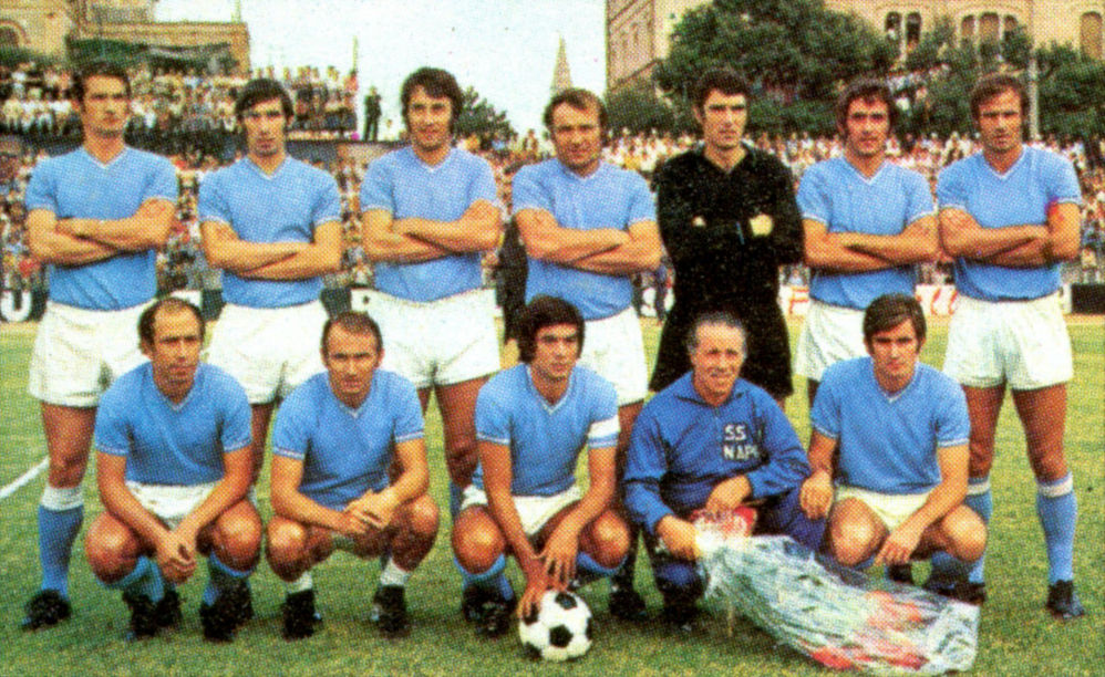 Perugia (Italy), Santa Giuliana Stadium, August 23, 1970. The line-up of S.S.C. Napoli took to the pitch in the victorius away friendly match versus A.C. Perugia (0-2).